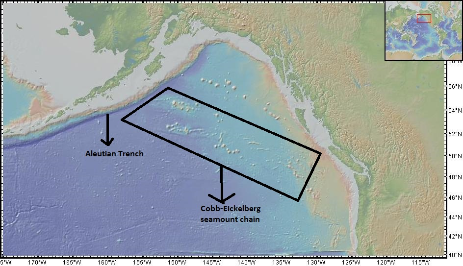 geomap